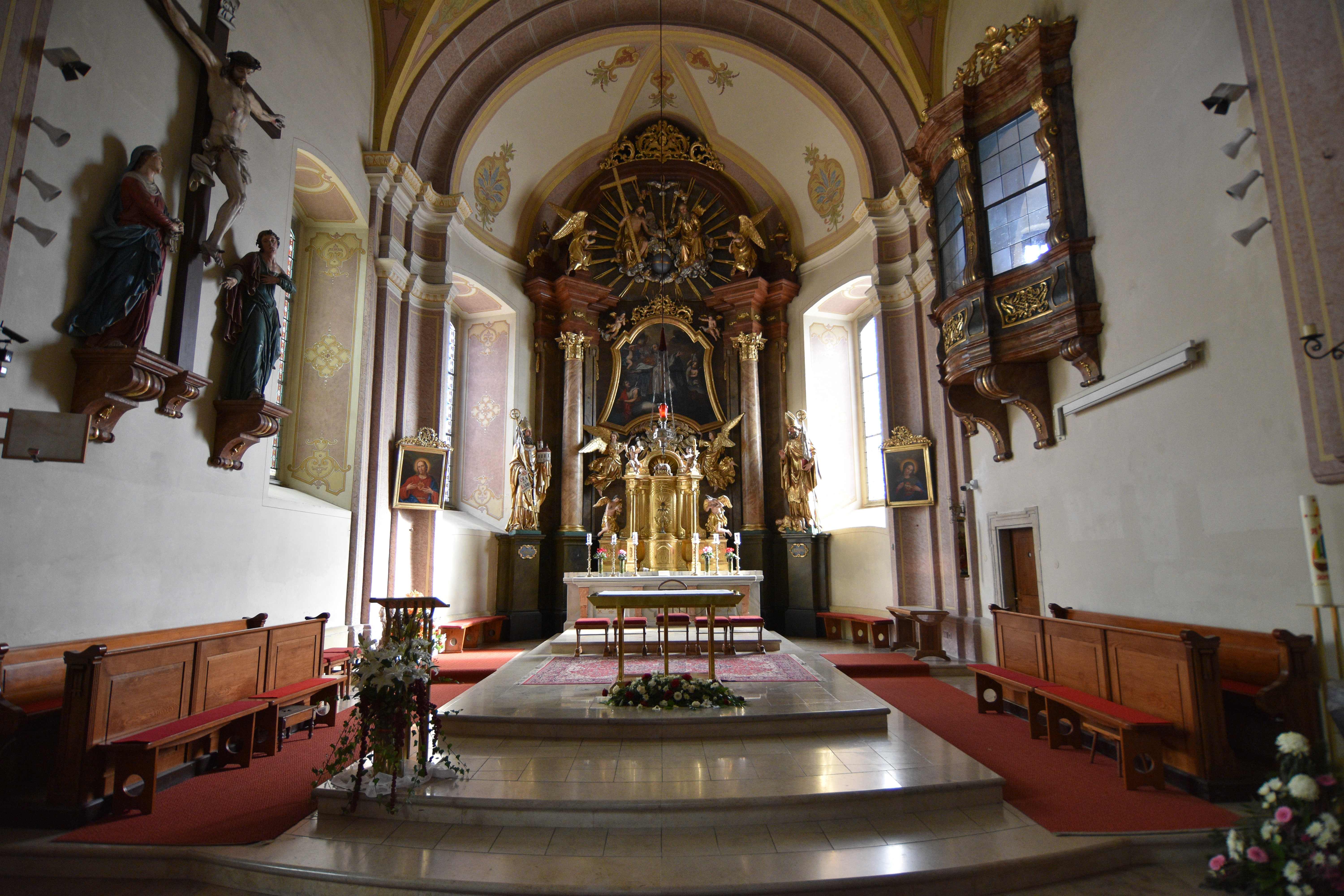 Church Sankt Ruprecht